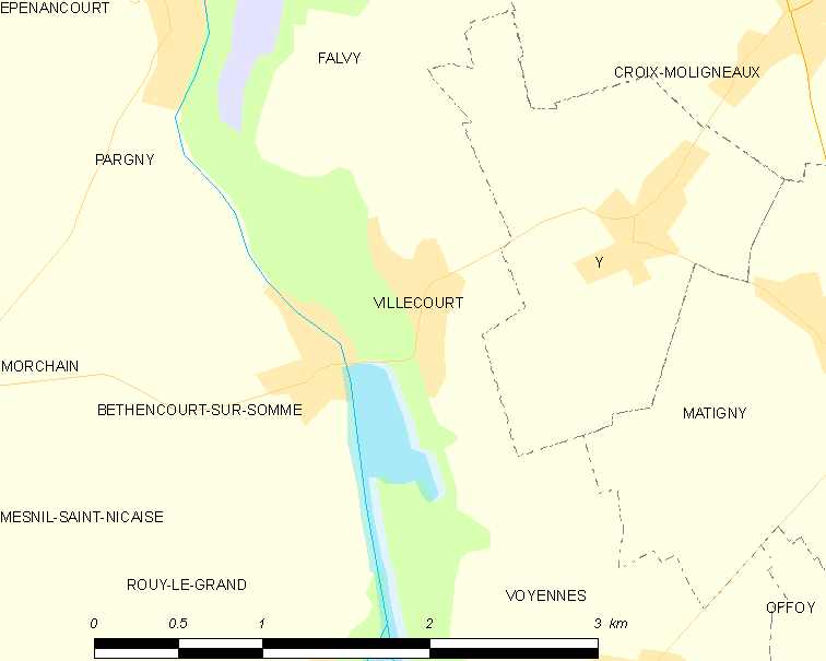 Map of French municipality Villecourt